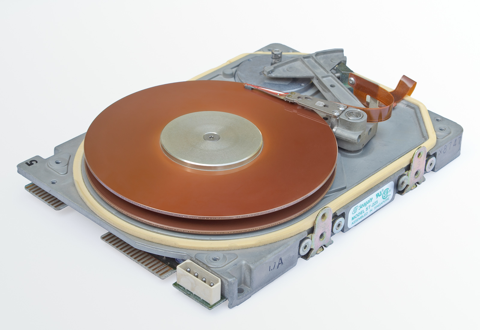 Image of a dismantled Seagate ST-225 harddisk. 5¼″ MFM harddisk with a stepper actuator. Technical Data: Capacity: 21.4 MB Speed: 3600 rpm Average Seek Time: 65 ms Heads: 4